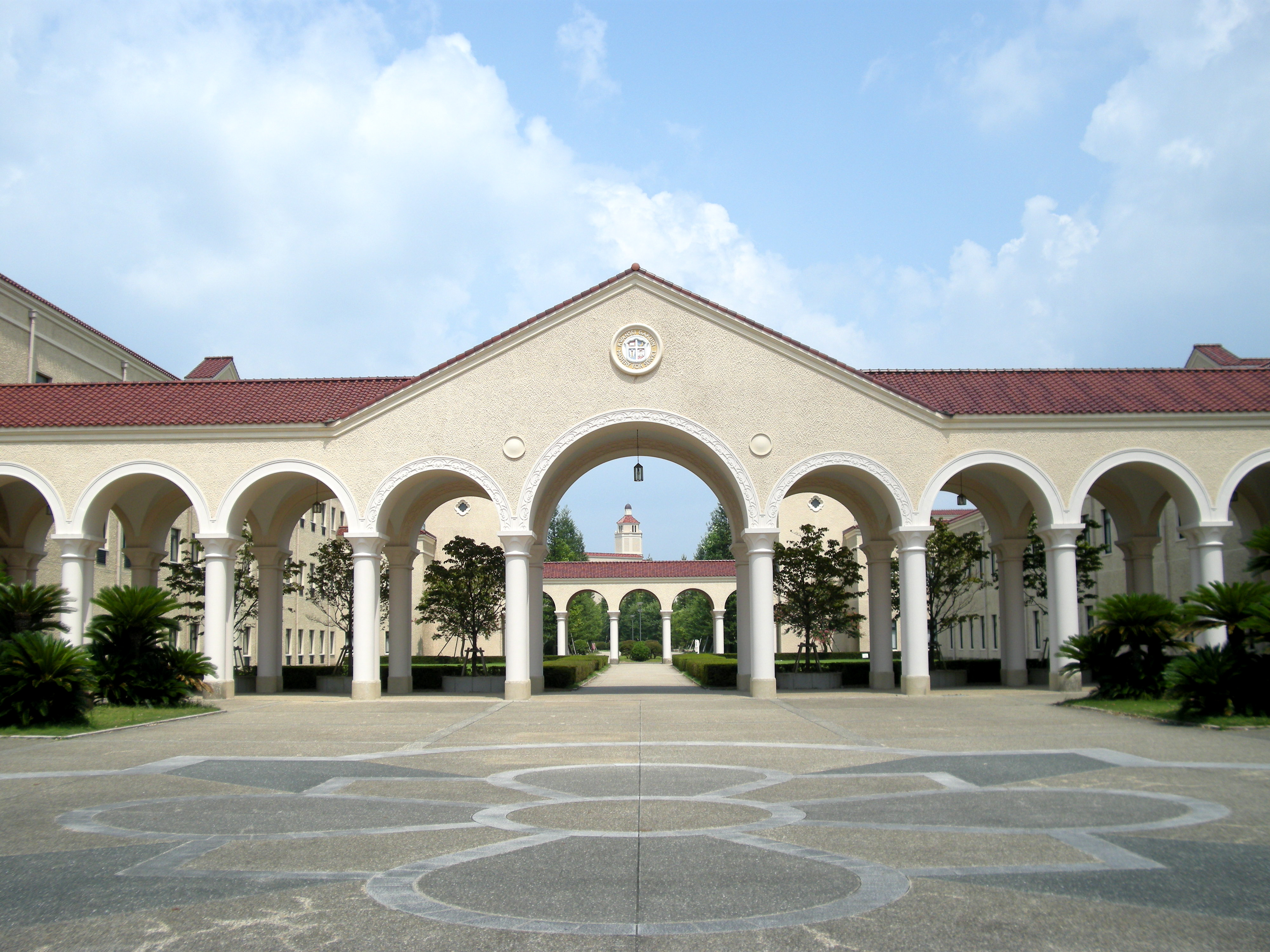 Cloister at Kobe-Sanda Campus of Kwansei Gakuin University (Sanda, Hyogo)